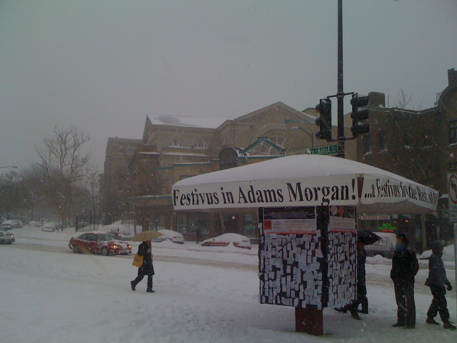 Celebrating the ancient (from the TV show Seinfeld) rite of festivus in Adams Morgan Washington DC.